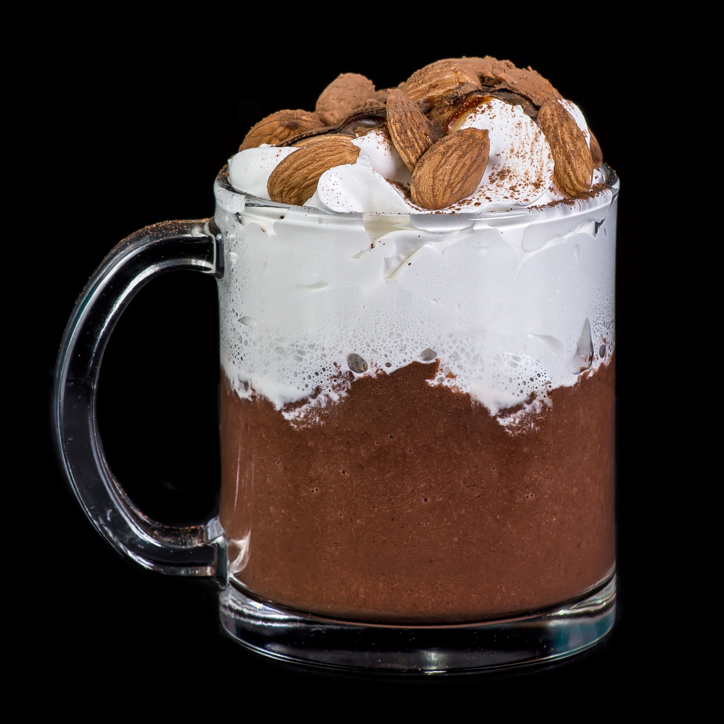 Irish cream cup